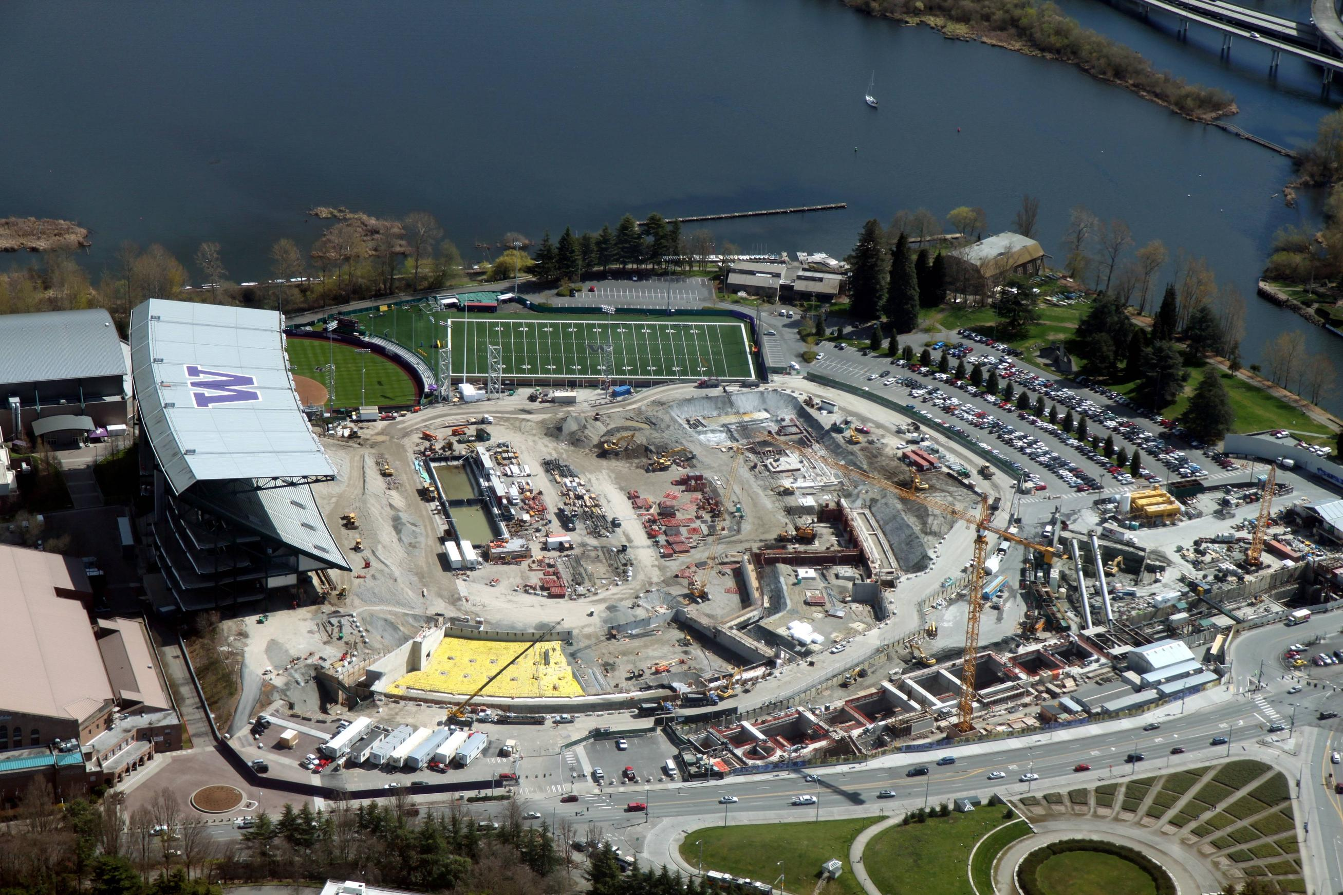 University of Washington's Husky Stadium, Seattle WA, midway through a renovation project.